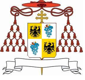 Coat of arms of Ascanio Maria Sforza, Cardinal